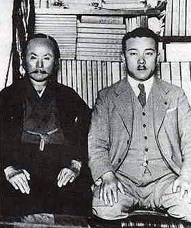 Photo: Gichin Funakoshi with Yasuhiro Konishi